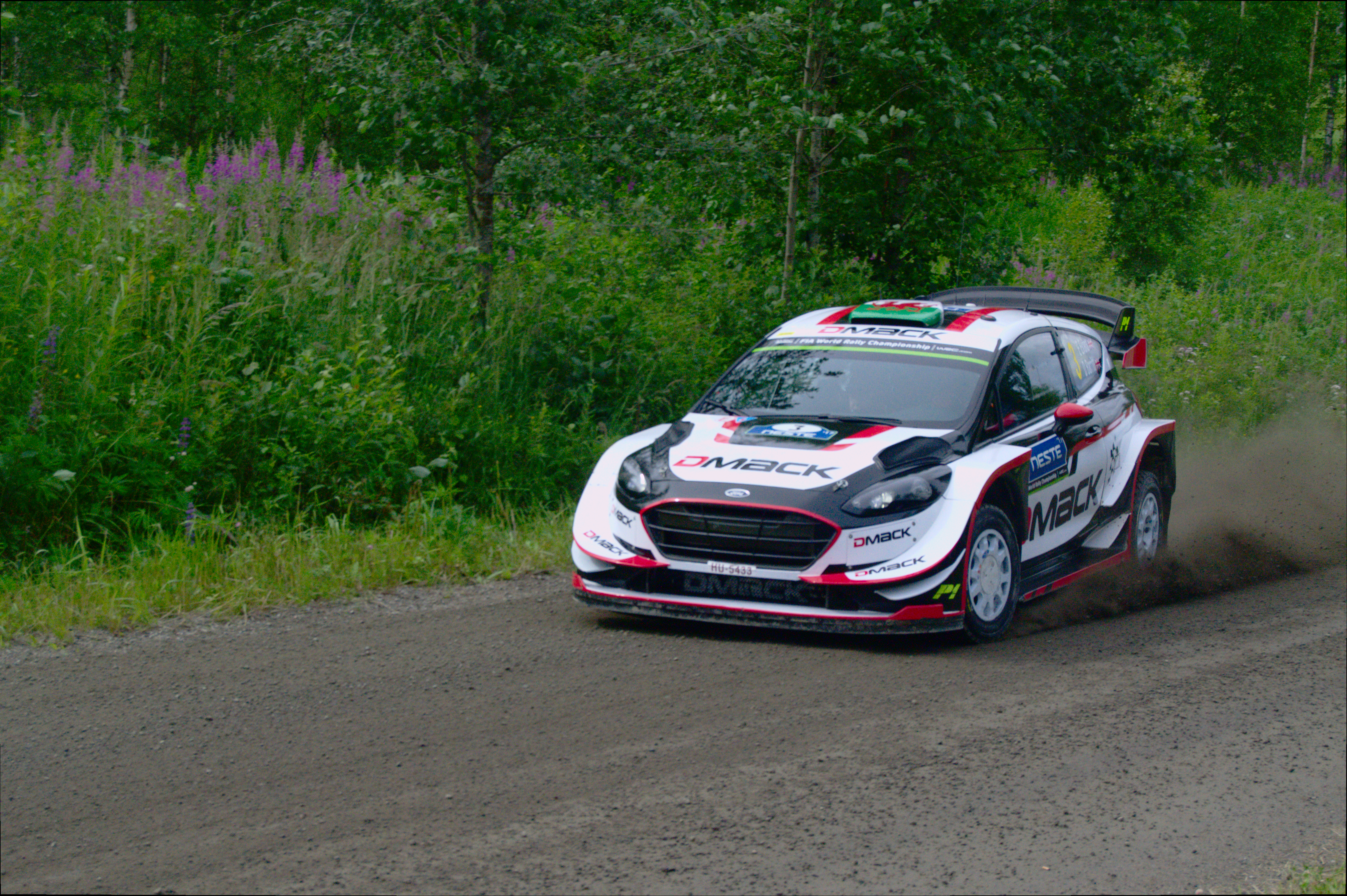 Elfyn Evans at second Saalahti stage at Rally Finland 2017